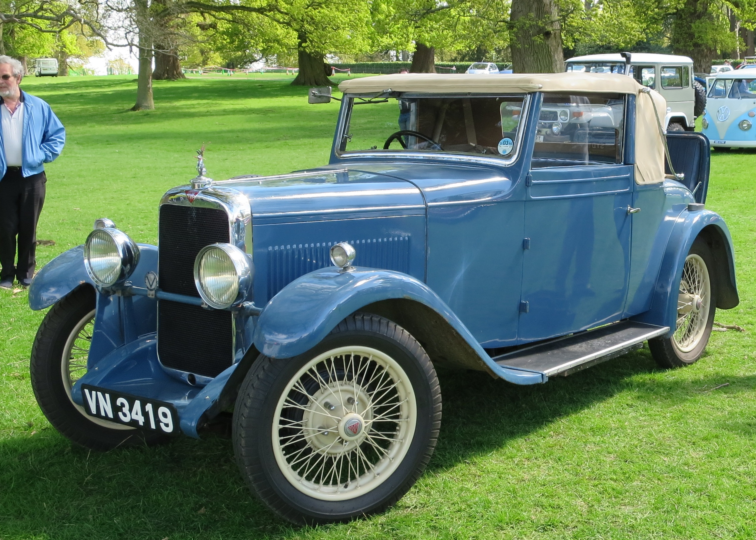 Alvis 12/50 (1932) at Woburn (2015)